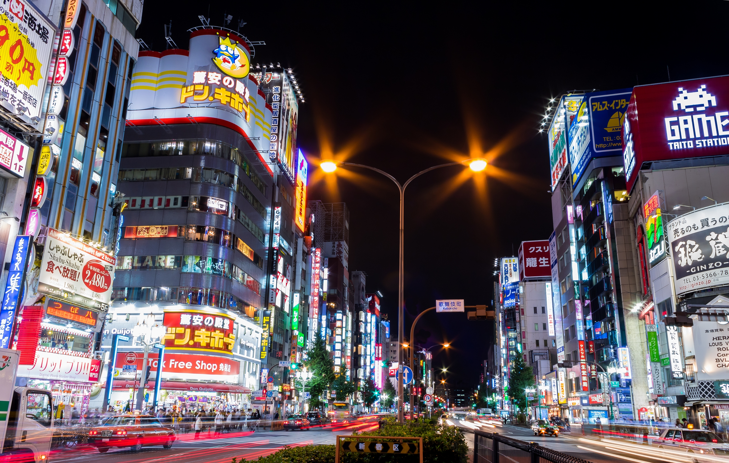 Kabukicho in Shinjuku, Tokyo